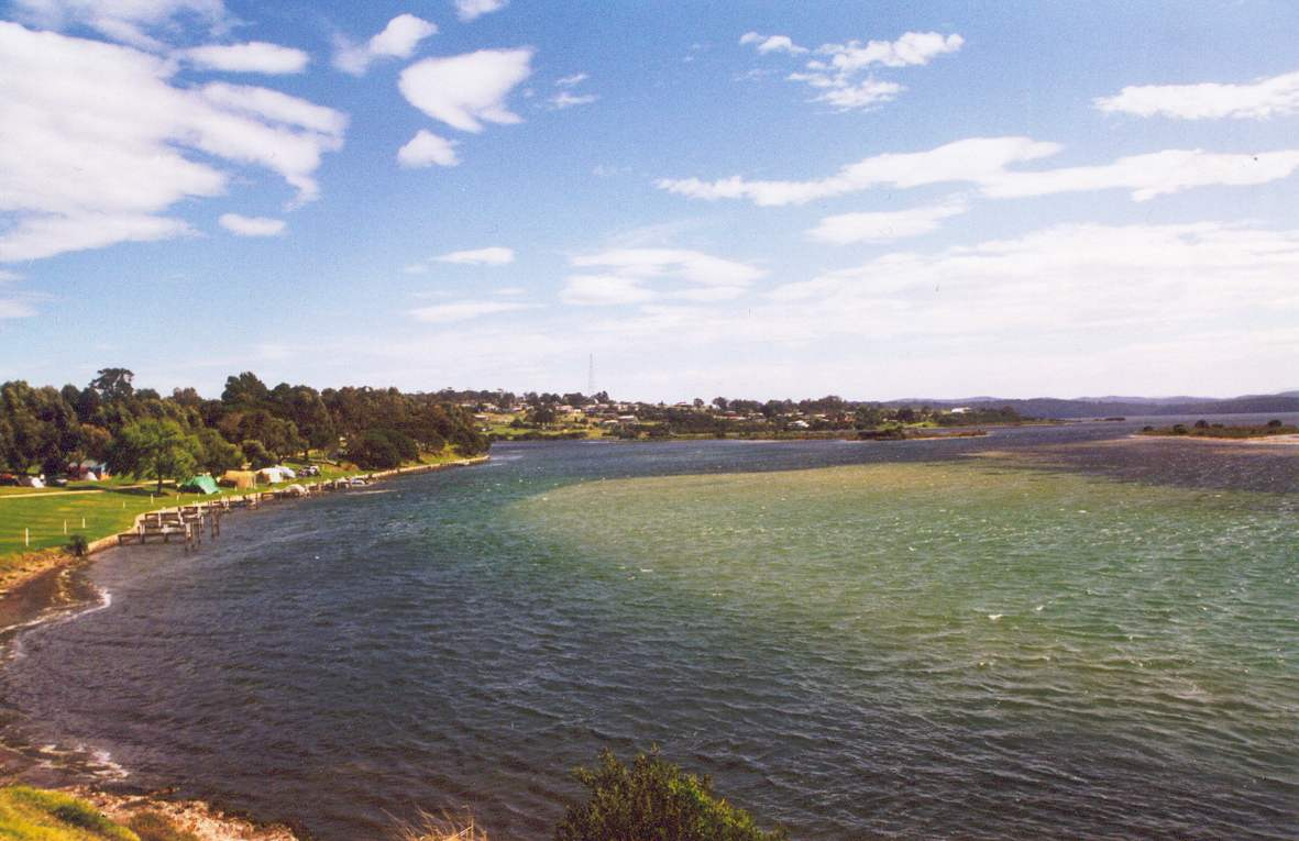 Mallacoota, Victoria, Australia. I took the photo Cfitzart 01:49, 27 August 2005 (UTC)